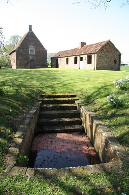 Monksthorpe Baptistry. Baptistry 1263213 and chapel 1263192 at Monksthorpe